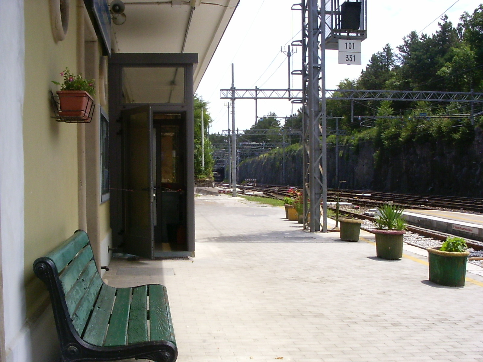 Bivio d’Aurisina train station, view towards Trieste from first platform